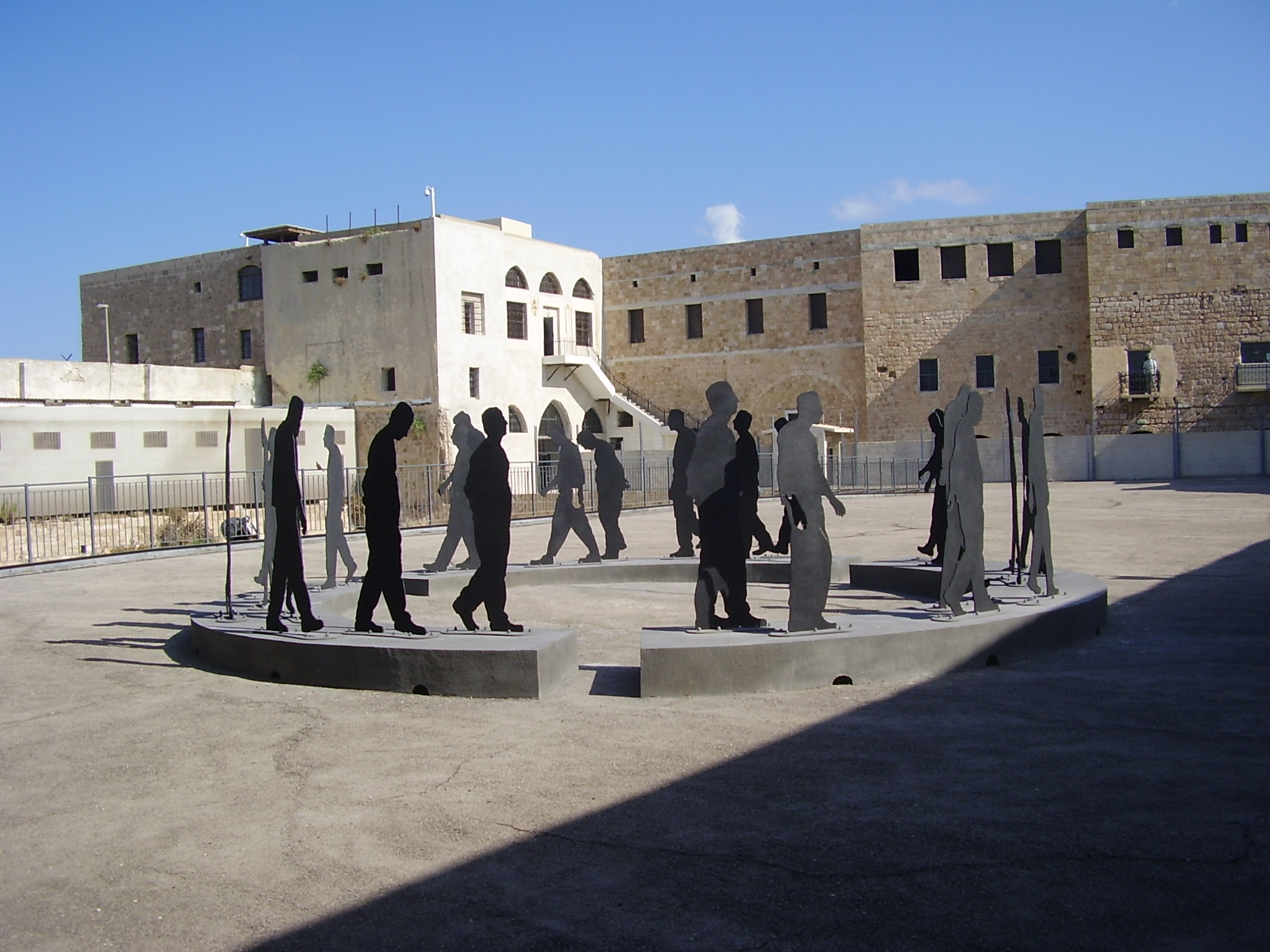 Daily stroll of prisoners in Acre underground prisoners museum